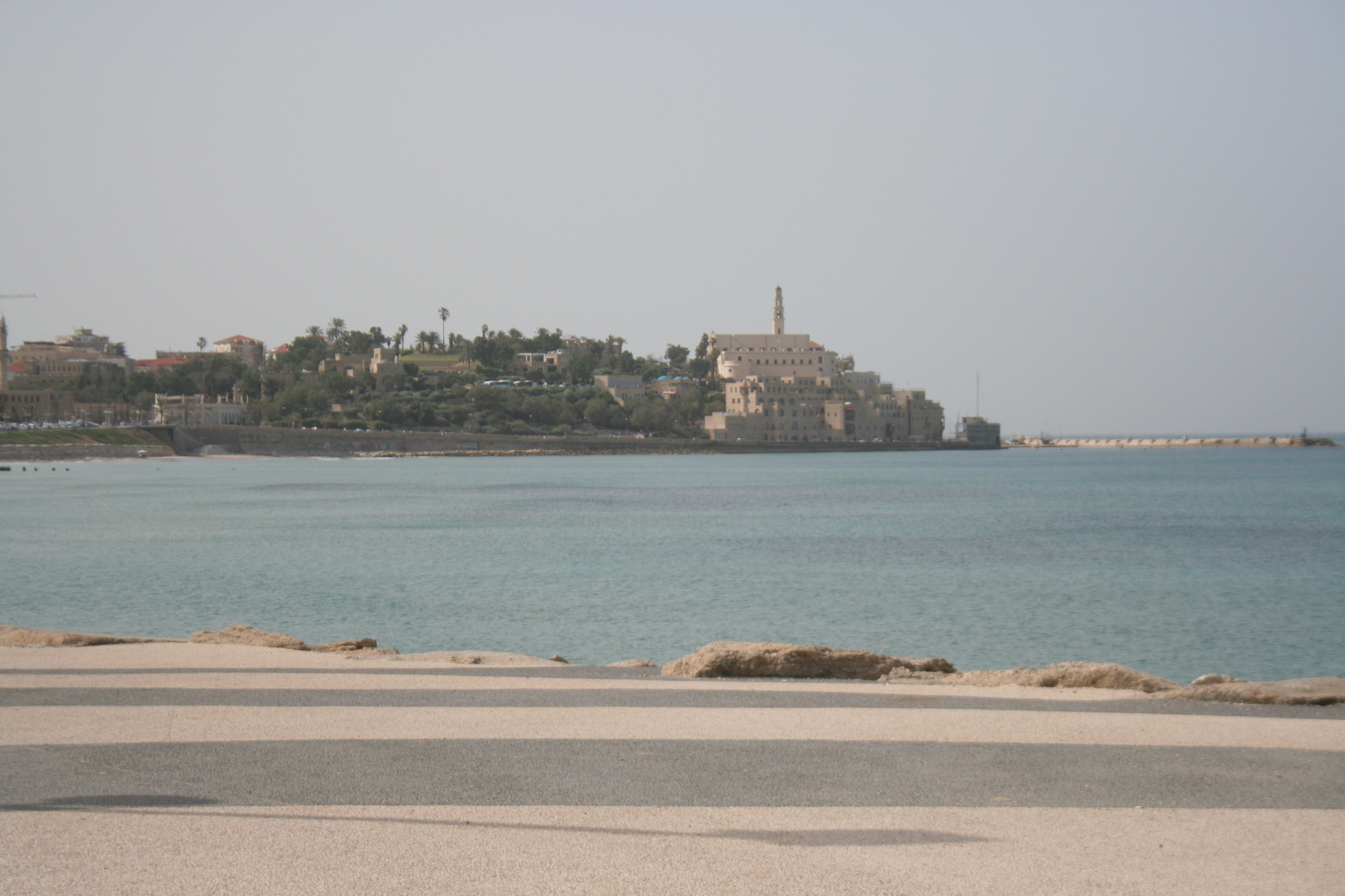 Jaffa View from Tel Aviv